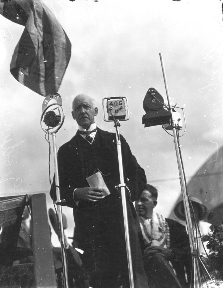 Sir John Goodwin speaking at the opening of the William Jolly Bridge, Brisbane, 1932 Sir John Goodwin, Governor of Queensland, addressed a gathering on the Grey Street Bridge before severing a silken ribbon and unveiling a commemorative tablet, acts that signified the opening of the new structure. (Description supplied with photograph.).